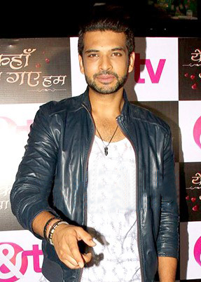 Karan Kundra at the launch Yeh Kahan Aa Gaye Hum.